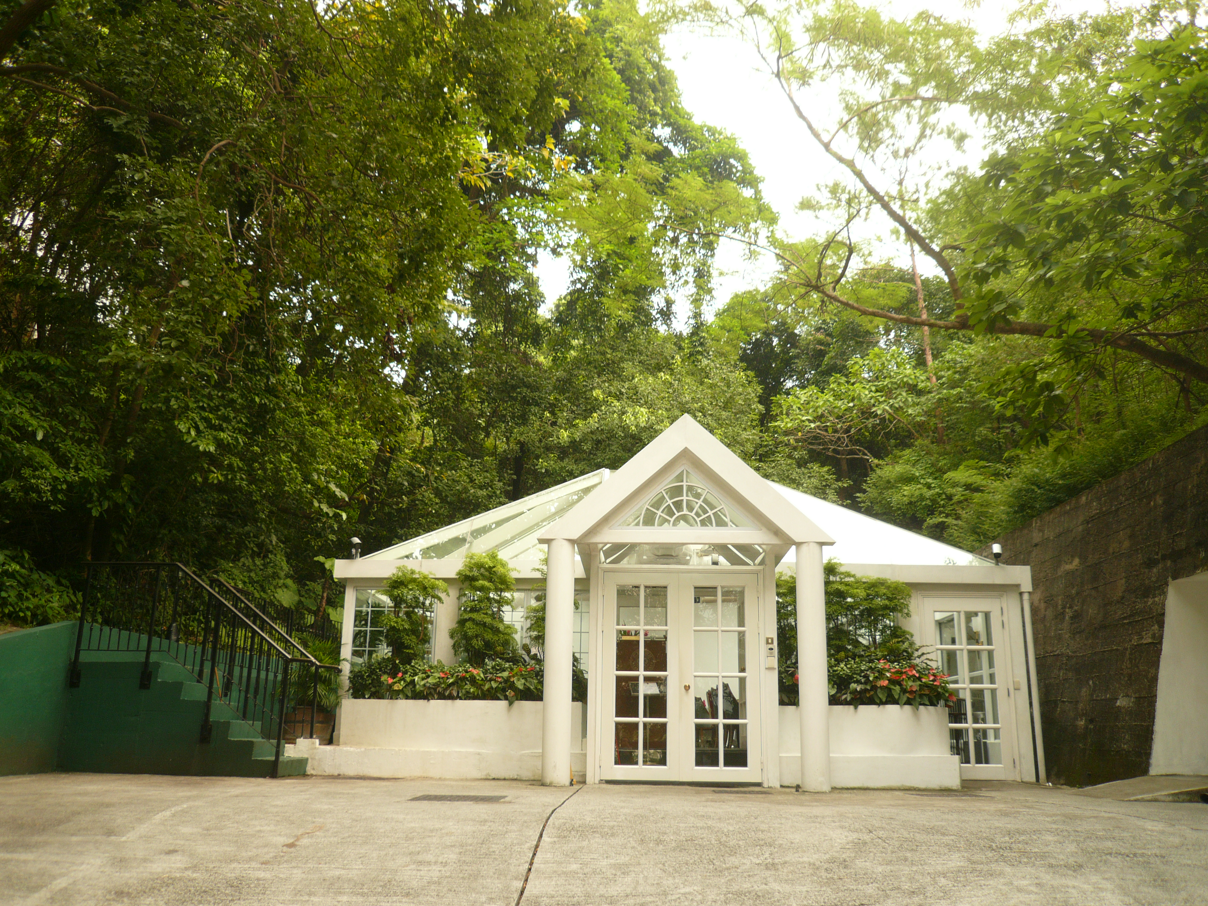 the front of the Crown Wine Cellars in 2009